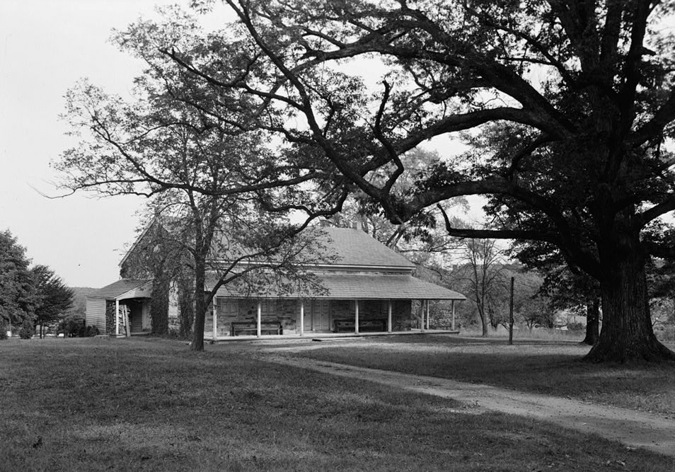 Little Falls Meetinghouse — Quaker meeting house in Fallston, Maryland, USA. (cropped). On the National Register of Historic Places. Image courtesy of the federal HABS—Historic American Buildings Survey of Maryland.